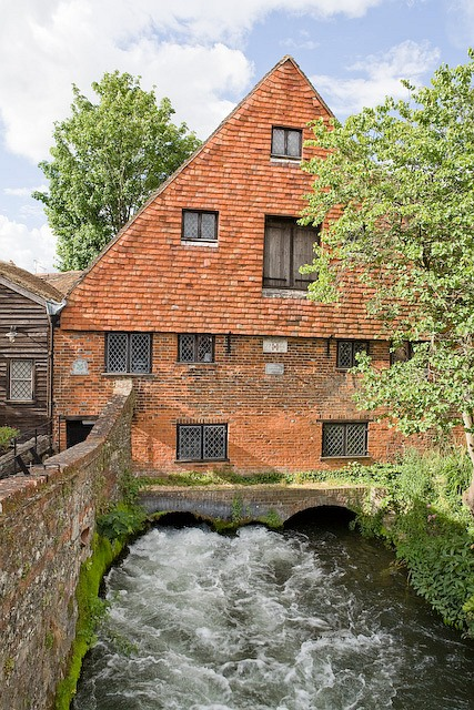 City Mills, Winchester